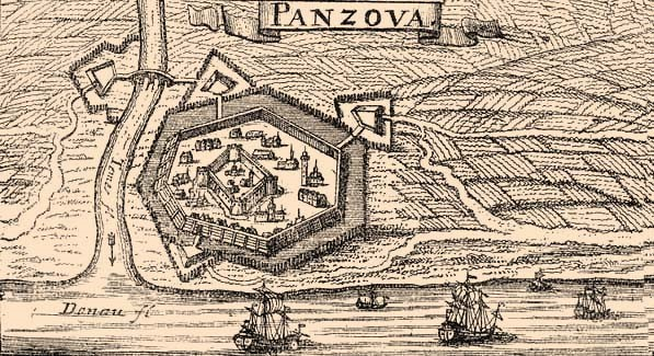 Pančevo in 1718